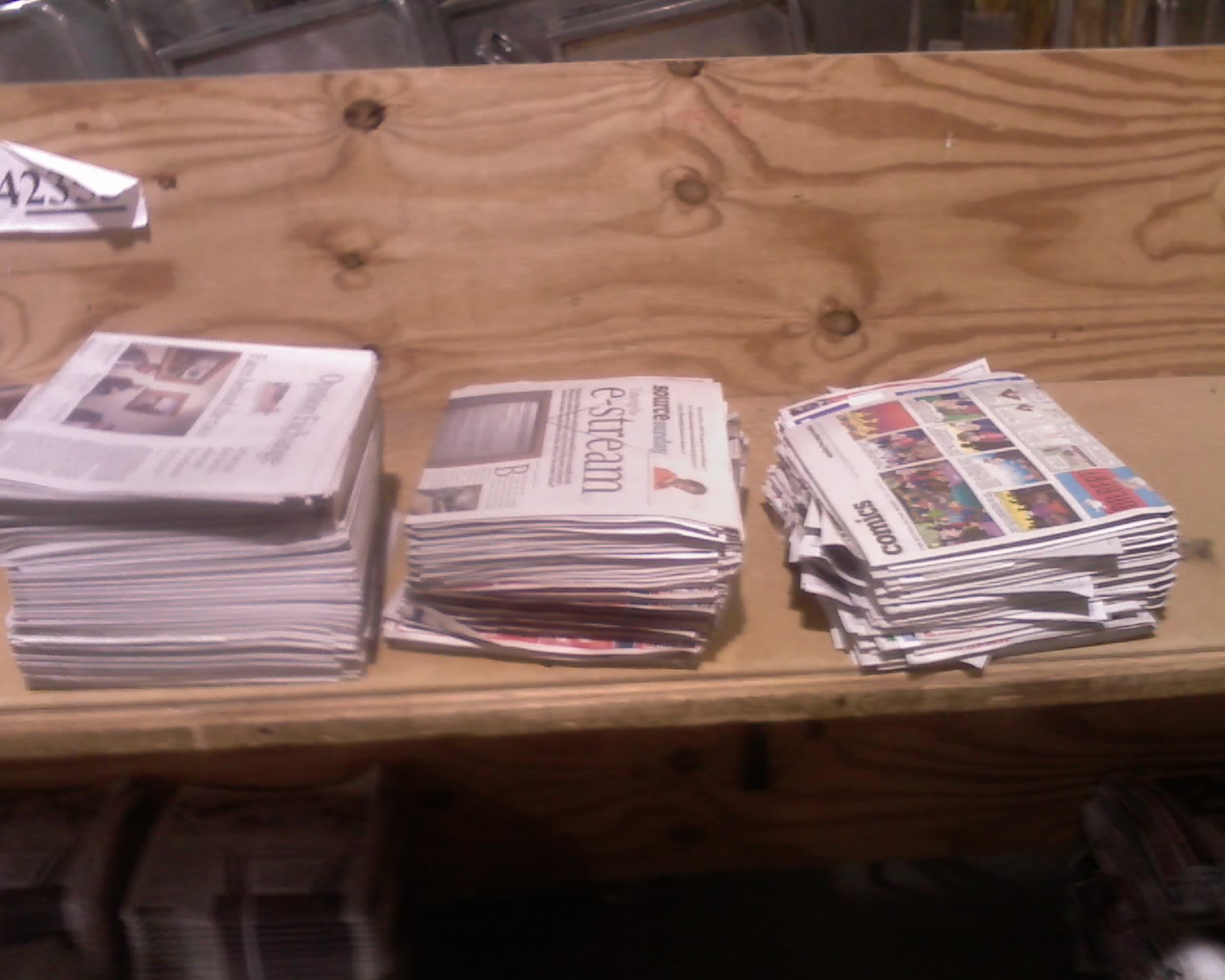 Star Tribune Assembly Process. Kiswahili: Star Tribune Mchakato wa uchapishaji.